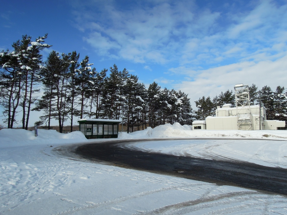 Hokkaido Chuo Bus Tsukisamu-Higashi 1-19 Bus Stop (formerly Tsukisamu Terminal) for Sapporo Station